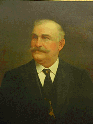 John Hunn of Delaware (1849-1926) artist: Clawson S. Hammitt, 1907: Oil on canvas; 28 3/4" a 24 1/4" Courtesy of Delaware Department of State, Division of Historical and Cultural Affairs. Collection of the Delaware State Museums.